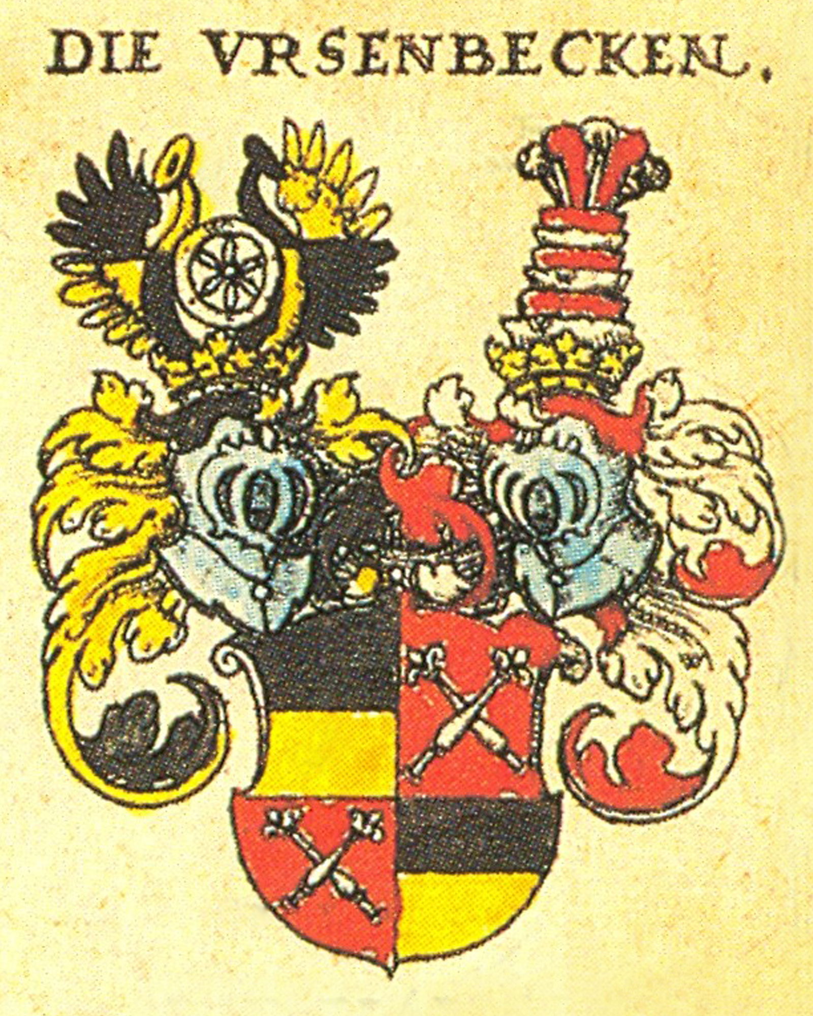 Coat of Arms of Ursenbeck, Austria